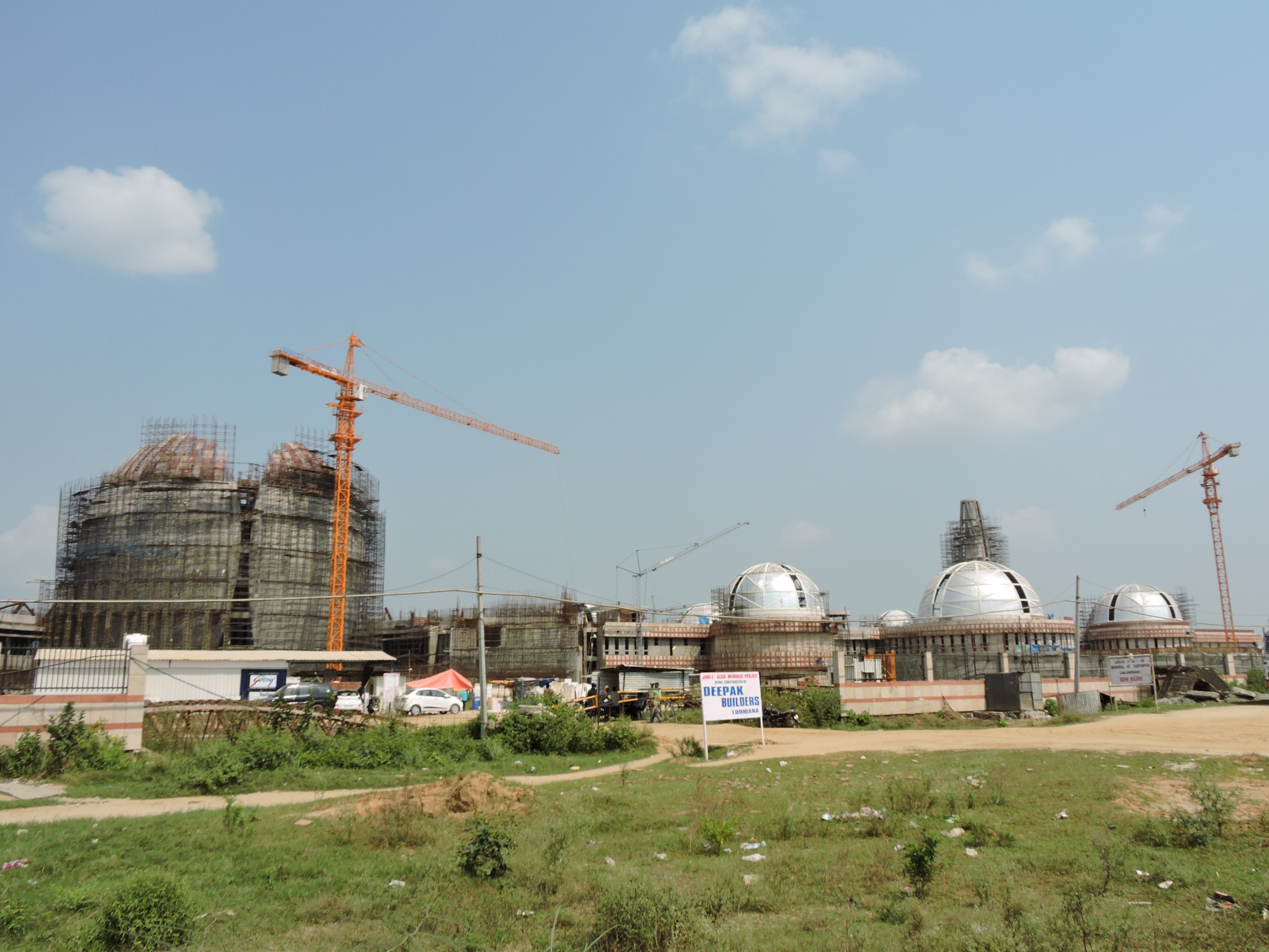 Building of Jang E Azadi Memomorial under construction, Jalandhar, Punjab, India